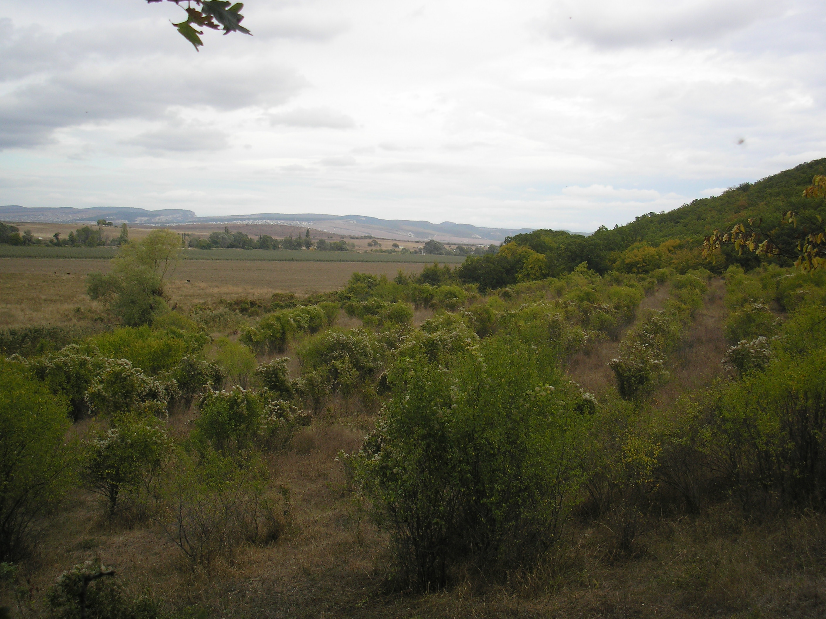 Tract Dzhangarel, Kacha Valley, Crimea